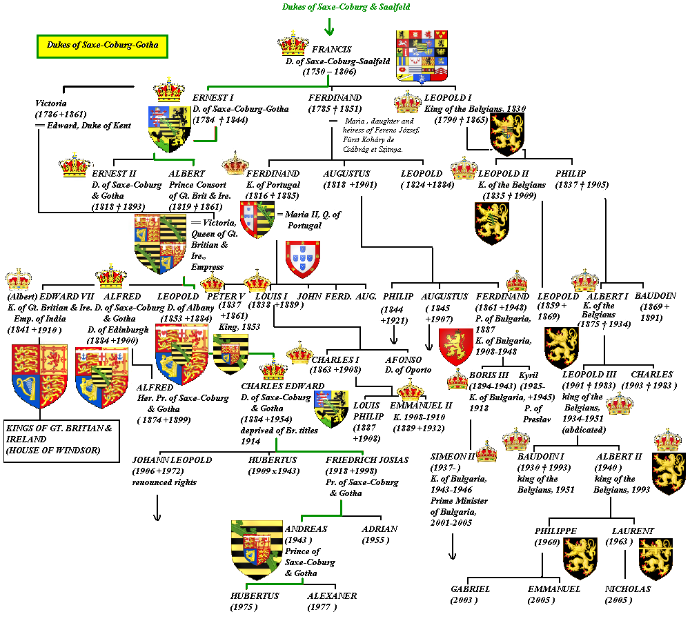 Family tree of the house of Saxe-Coburg-Gotha on the thrones of Great Britian, Belgium, Portugal & Bulgaria, updated (cleaner lines)